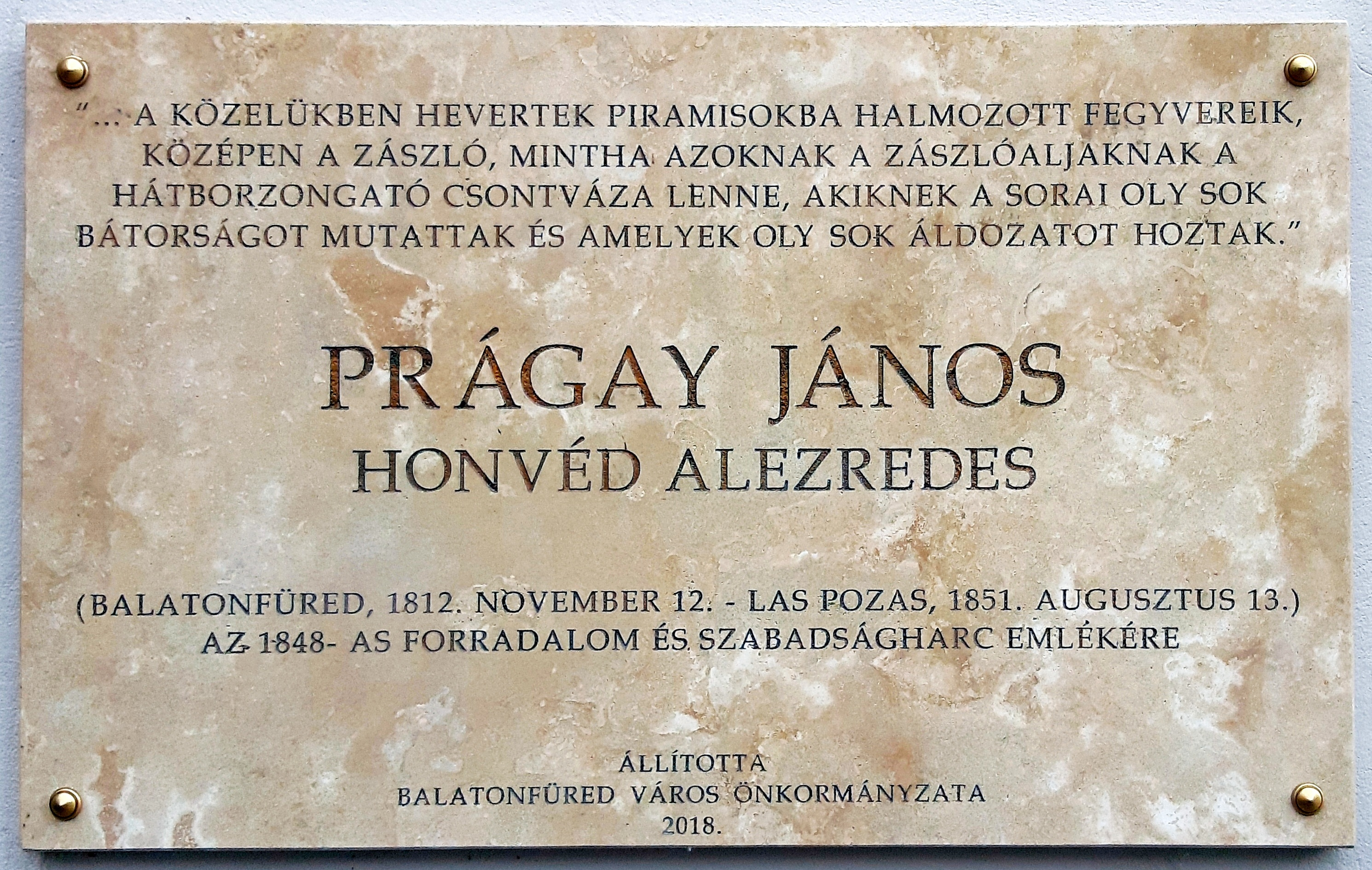 Commemorative plaque to Lieutenant-Colonel János Prágay (1812–1851) born in the city of Balatonfüred and who was an officer of the Home Defence Forces during the War of Independence in 1848-49. It has been affixed to the Zsigmond Street side of the corner building and inaugurated on September 22, 2018. Quote: "Near us rested their weapons set in pyramids with a flag in the middle, as if they were frightening skeletons of the battalions whose lines had shown so much courage and so much sacrifice." by János Prágay (Balatonfüred, Blaha Lujza Street Nr 6)